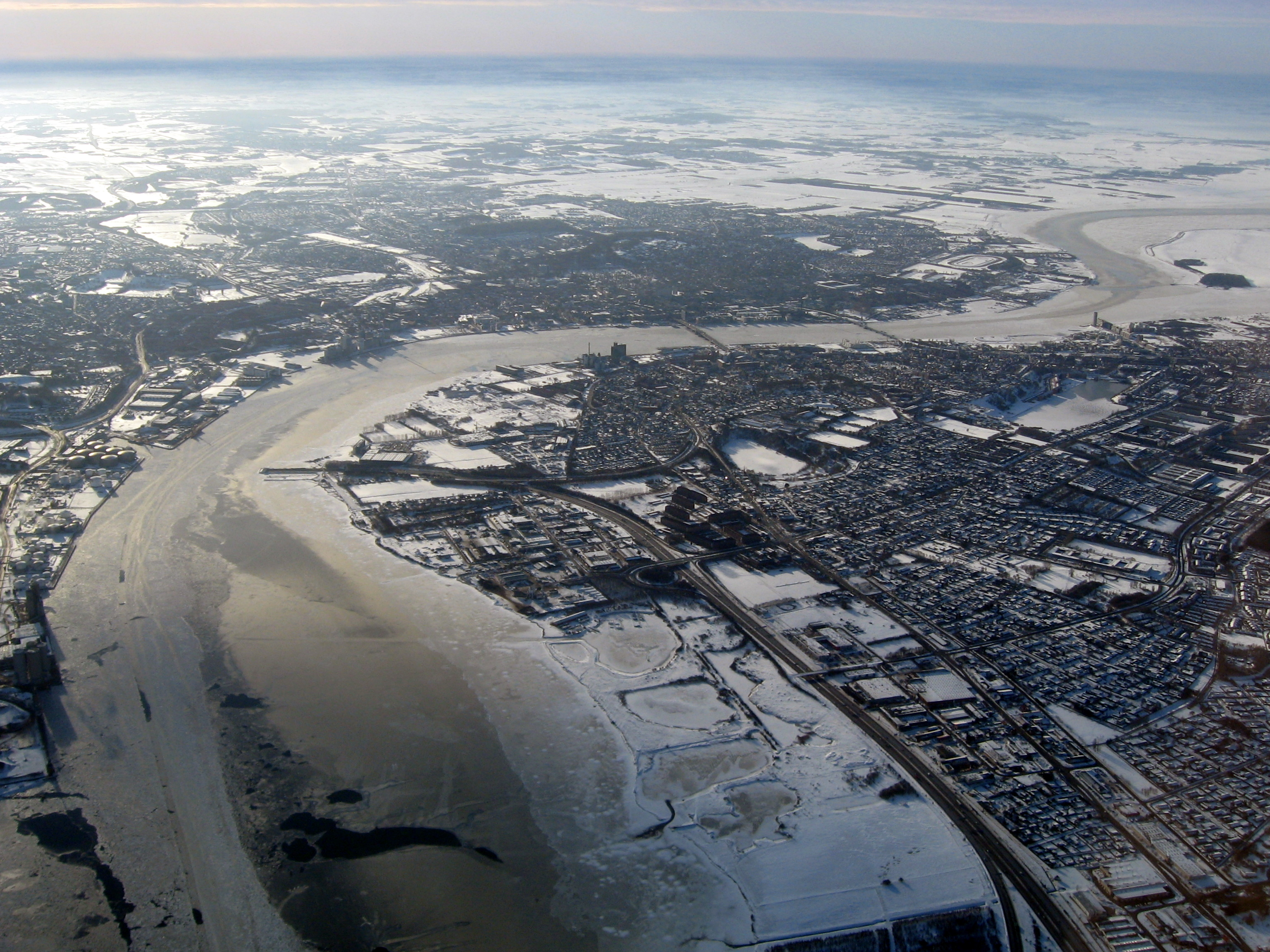 Two bridges over Limfjorden, joining Aalborg and Nørresundby